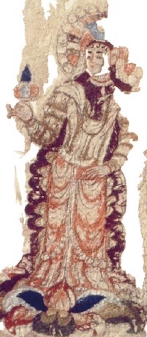 Image of Light Maiden, detail of the Uyghur Manichaean hanging scroll (MIK III 6251, Asian Art Museum, Berlin).